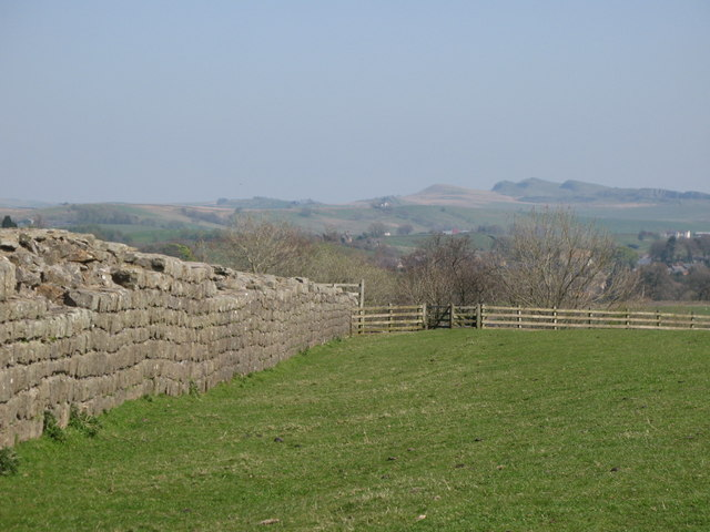 Hadrian's Wall west of Milecastle 49 (Harrow's Scar)